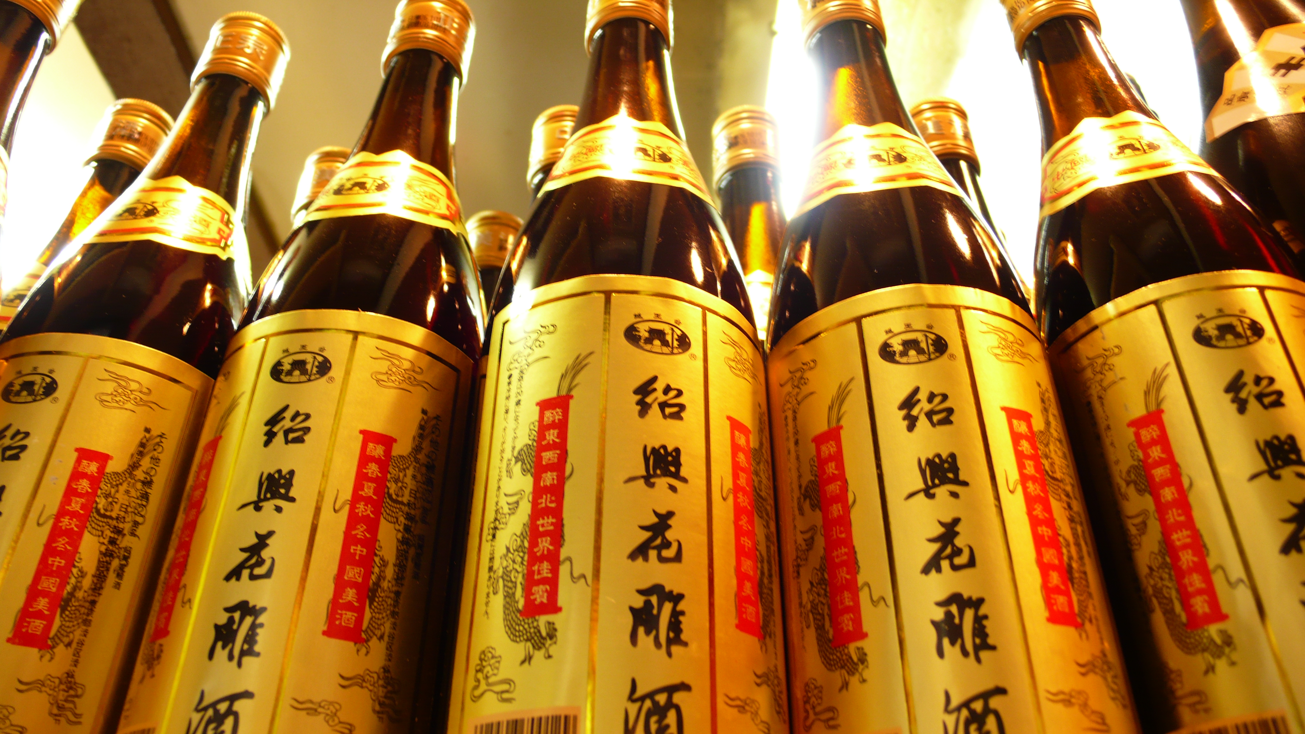 Shaoxing rice wine. 一品餃子